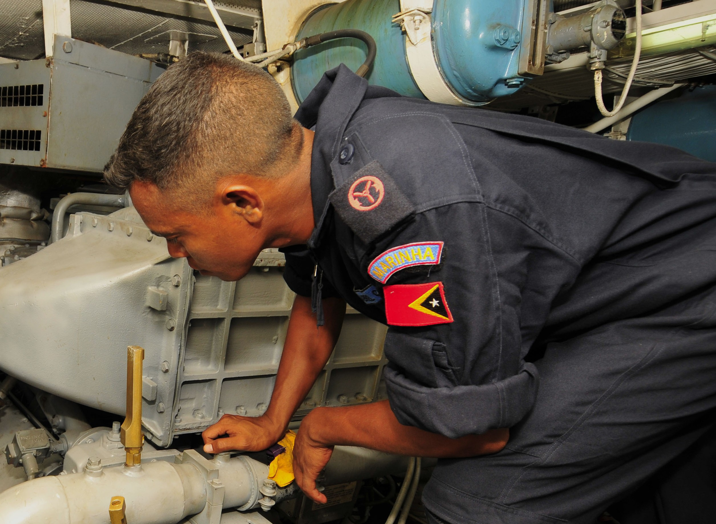 DILI, Timor-Leste (Nov. 28, 2011) – Gas Turbine System Mechanical 1st Class Alirio Arguetapinto assigned to the Arleigh Burke-class guided-missile destroyer USS Stethem (DDG 63) performs technical maintenance on a motor during a joint training exercise with Sailors of the Timor-Leste Defense Force aboard the vessel NRTL Kamenassa. Stethem is part of the Essex Expeditionary Strike Group.